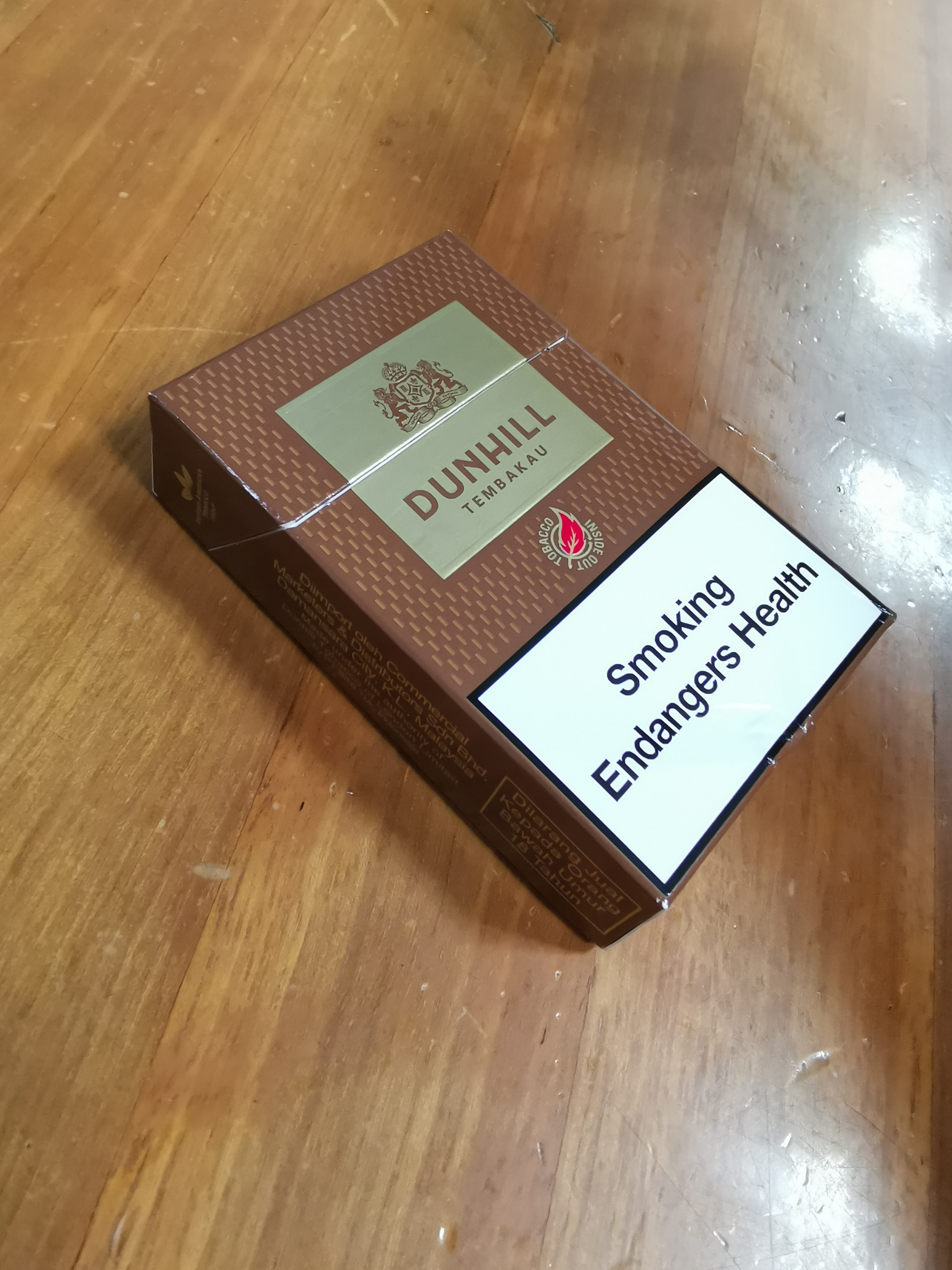 How does a Dunhill Tembakau pack looks like